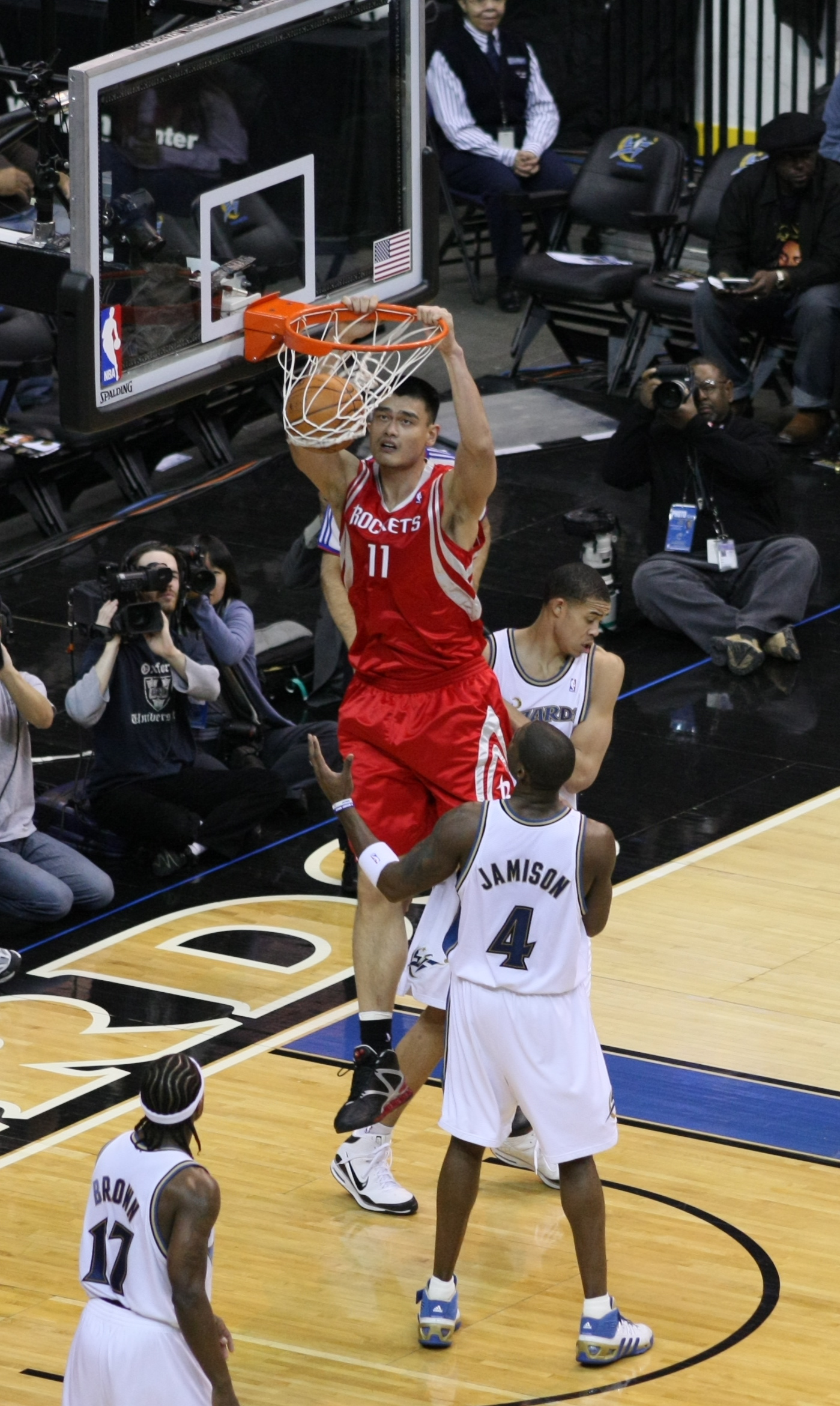 Yao Ming dunks during the Washington Wizards v/s Houston Rockets game on Nov 21, 2008 at Verizon Center in Washington, D.C.